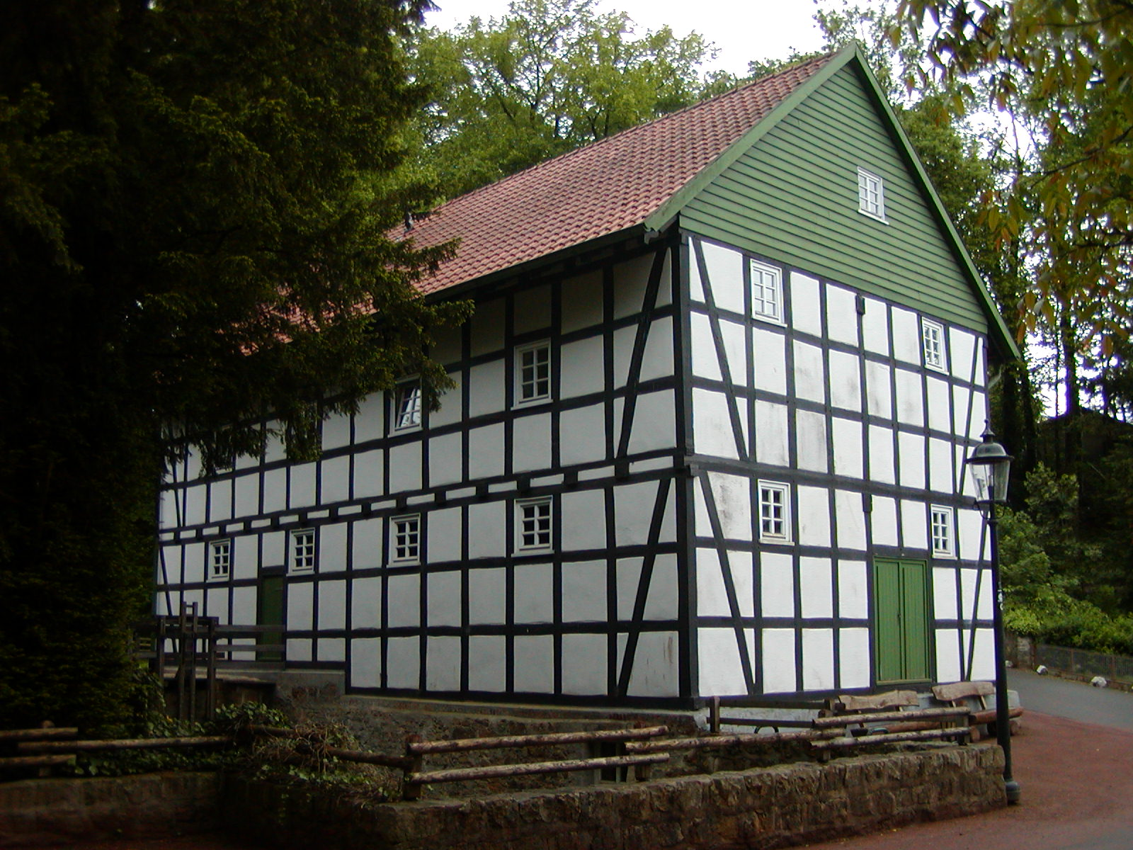 This is a photograph of an architectural monument. It is on the list of cultural monuments of Preußisch Oldendorf